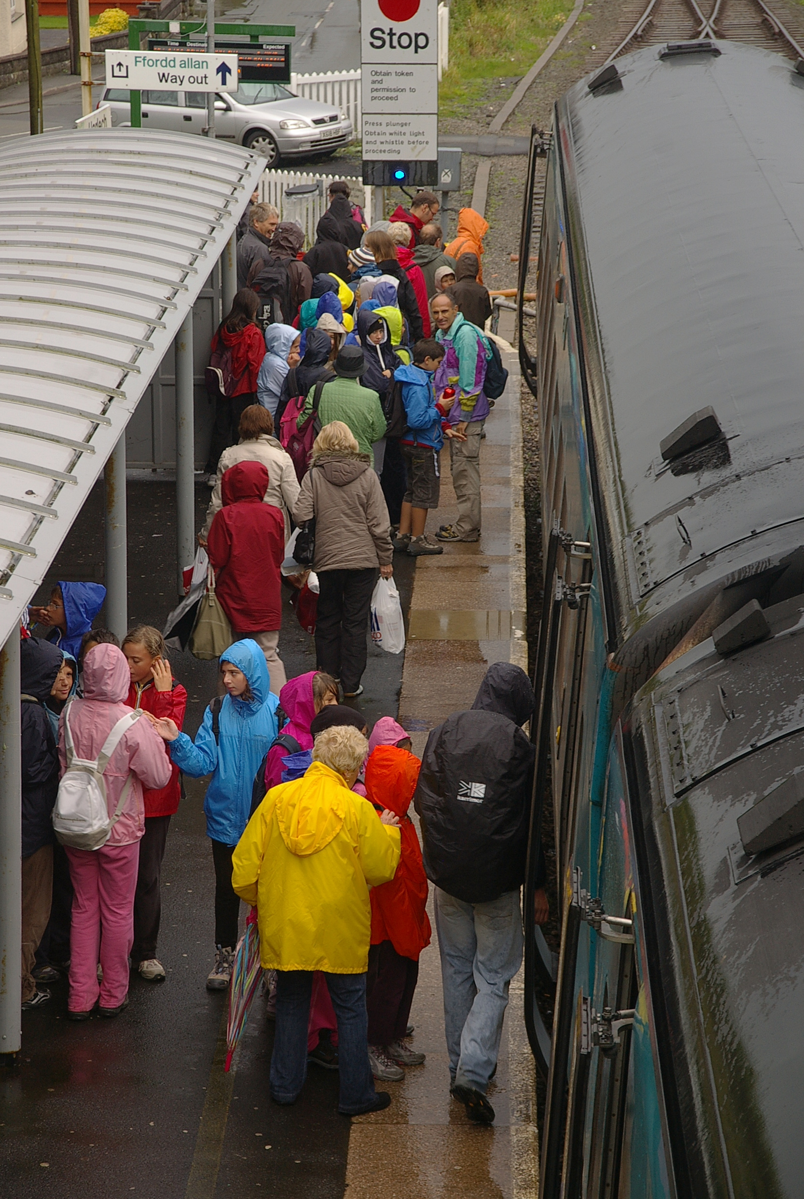 Arriva Trains Wales 158828 at Harlech with a southbound Cambrian Coast Line service to Birmingham International. The colours of the raincoats work well here.